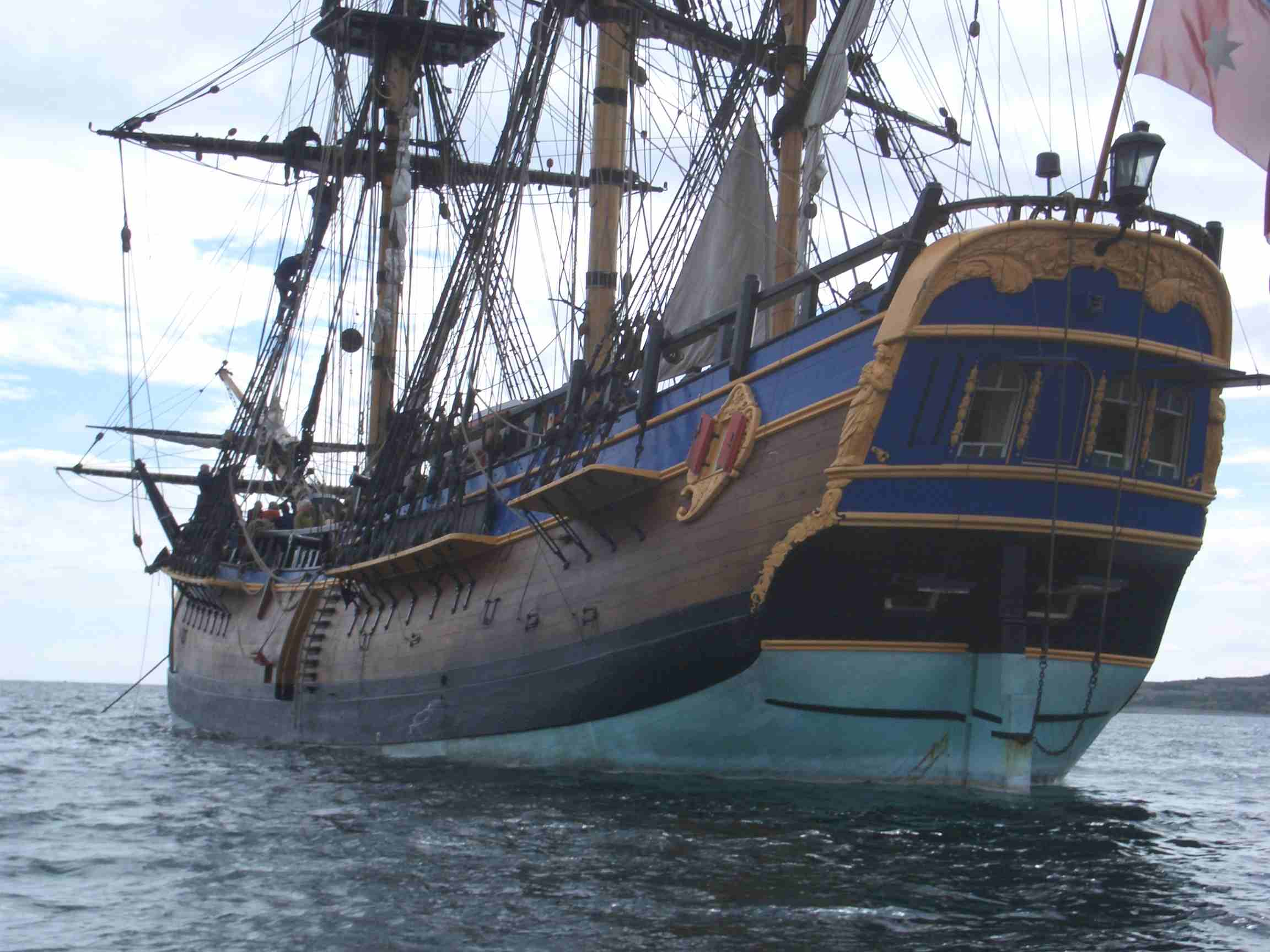 Replica of HM Bark Endeavour